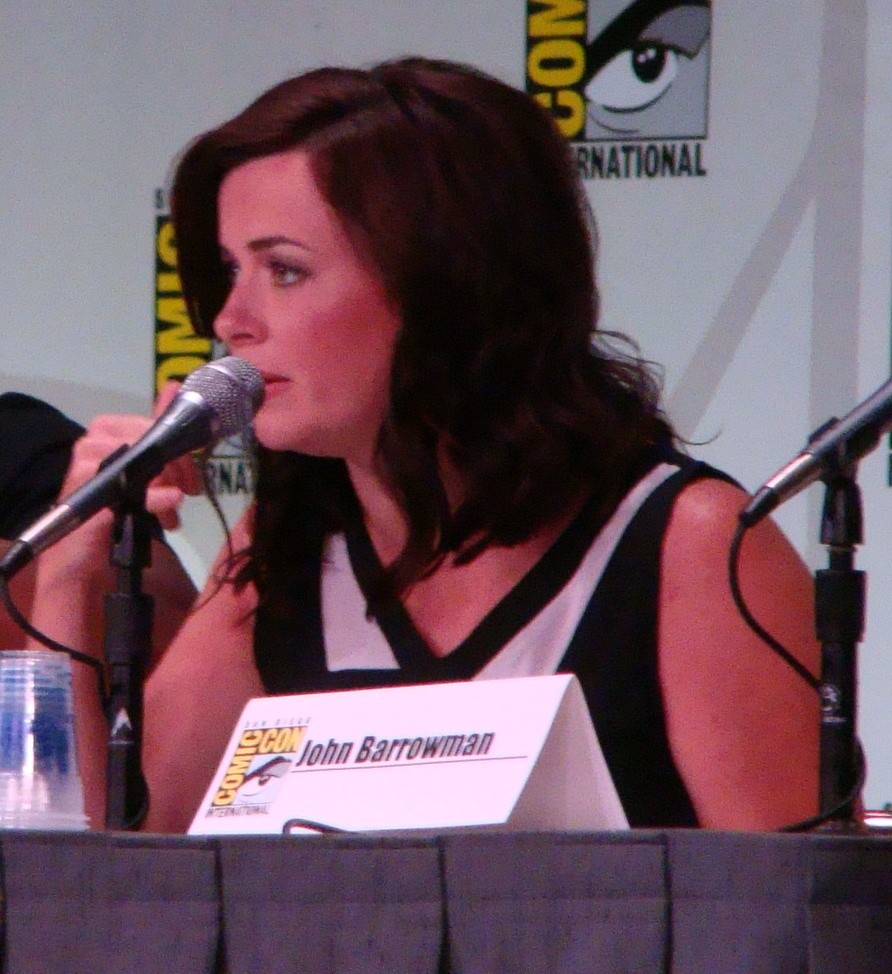 Torchwood cast member Eve Myles at the 2011 San Diego Comic-Con International.